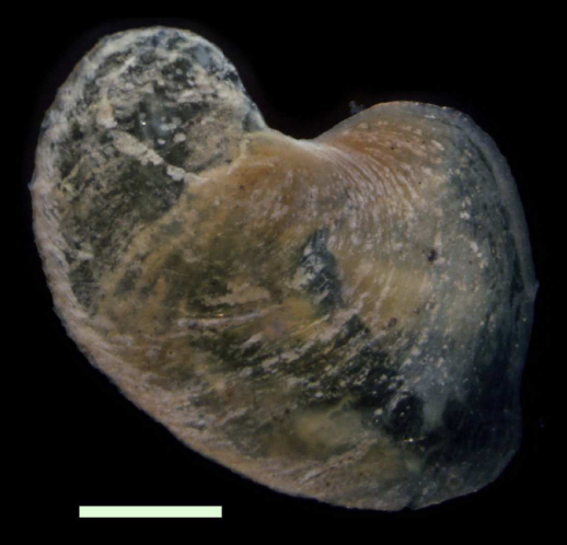 Photo of outer surface of the operculum of an adult individual of Chrysomallon squamiferum. The scale bar is 1 mm.